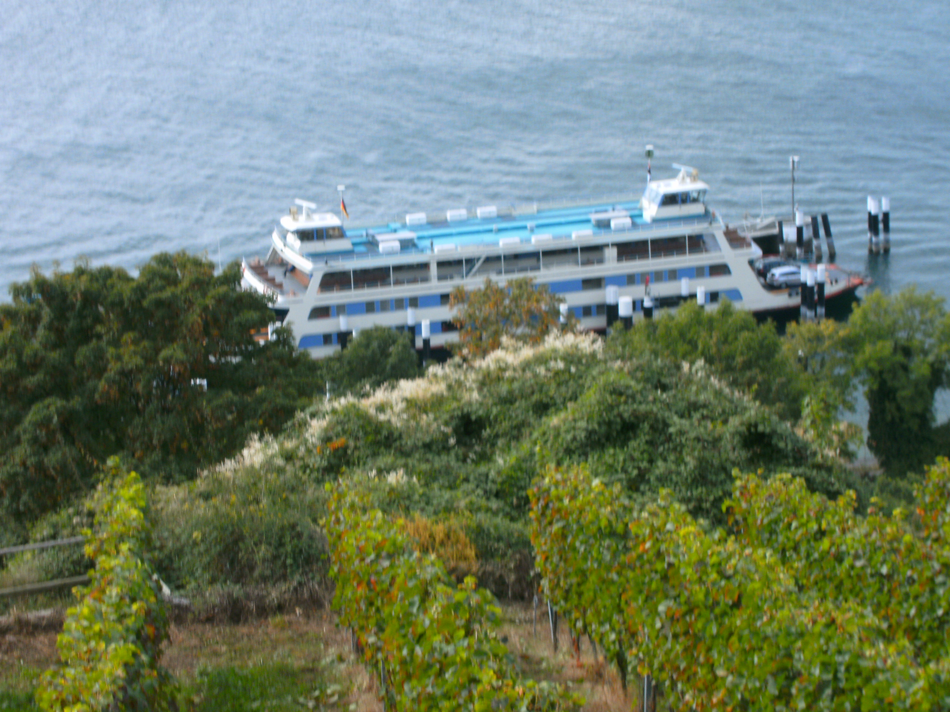 Meersburg, Germany, viewpoint Ödenstein: View on Fährehafen Meersburg of Konstanz-Meersburg ferry.